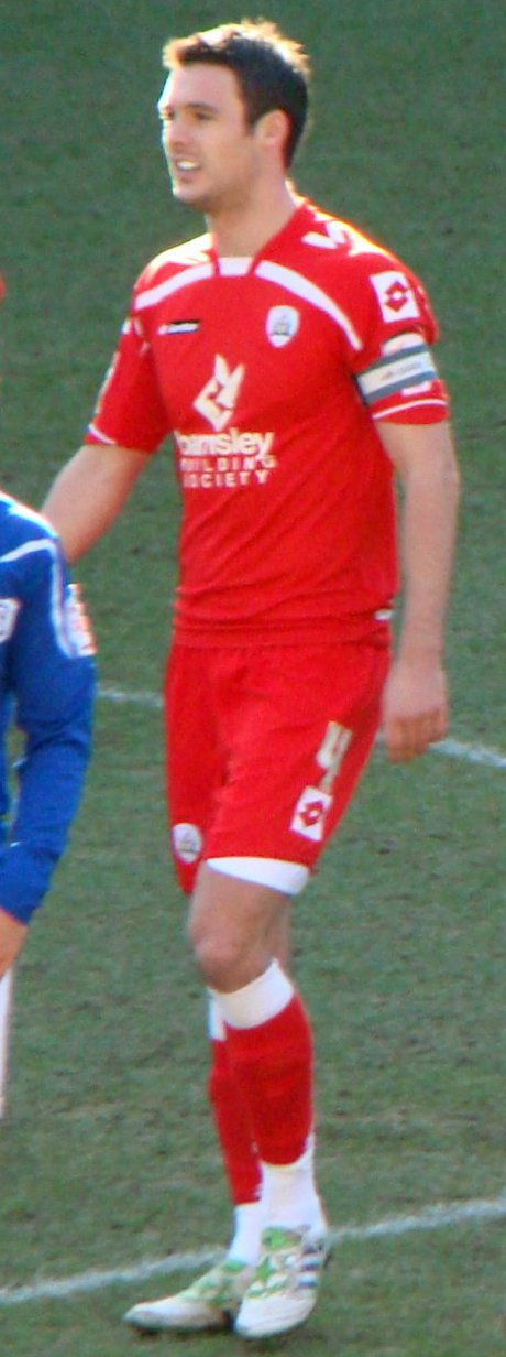 Jason Shackell, cropped from 13/03/11 Cardiff V Barnsley, Chamionship, Cardiff City Stadium, Cardiff, Wales